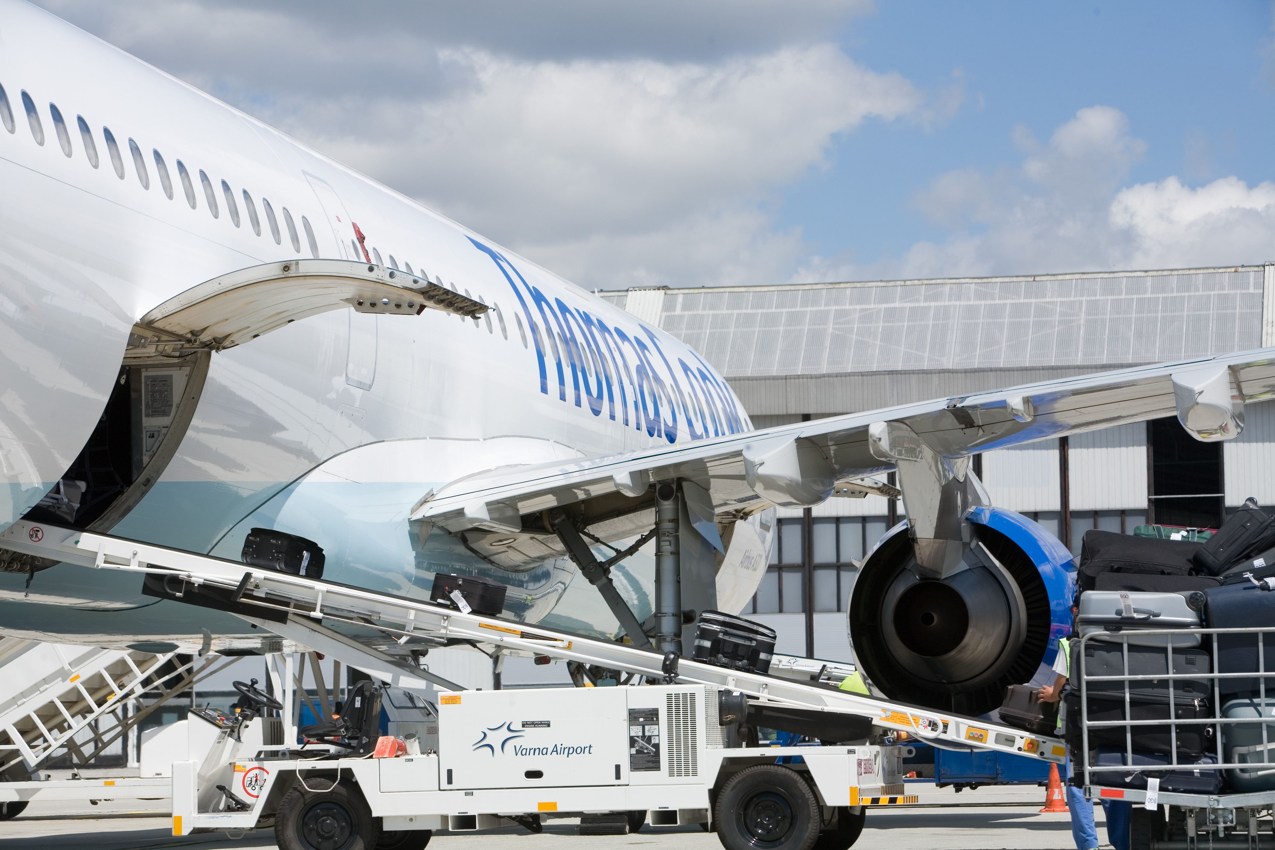 GroundHandling